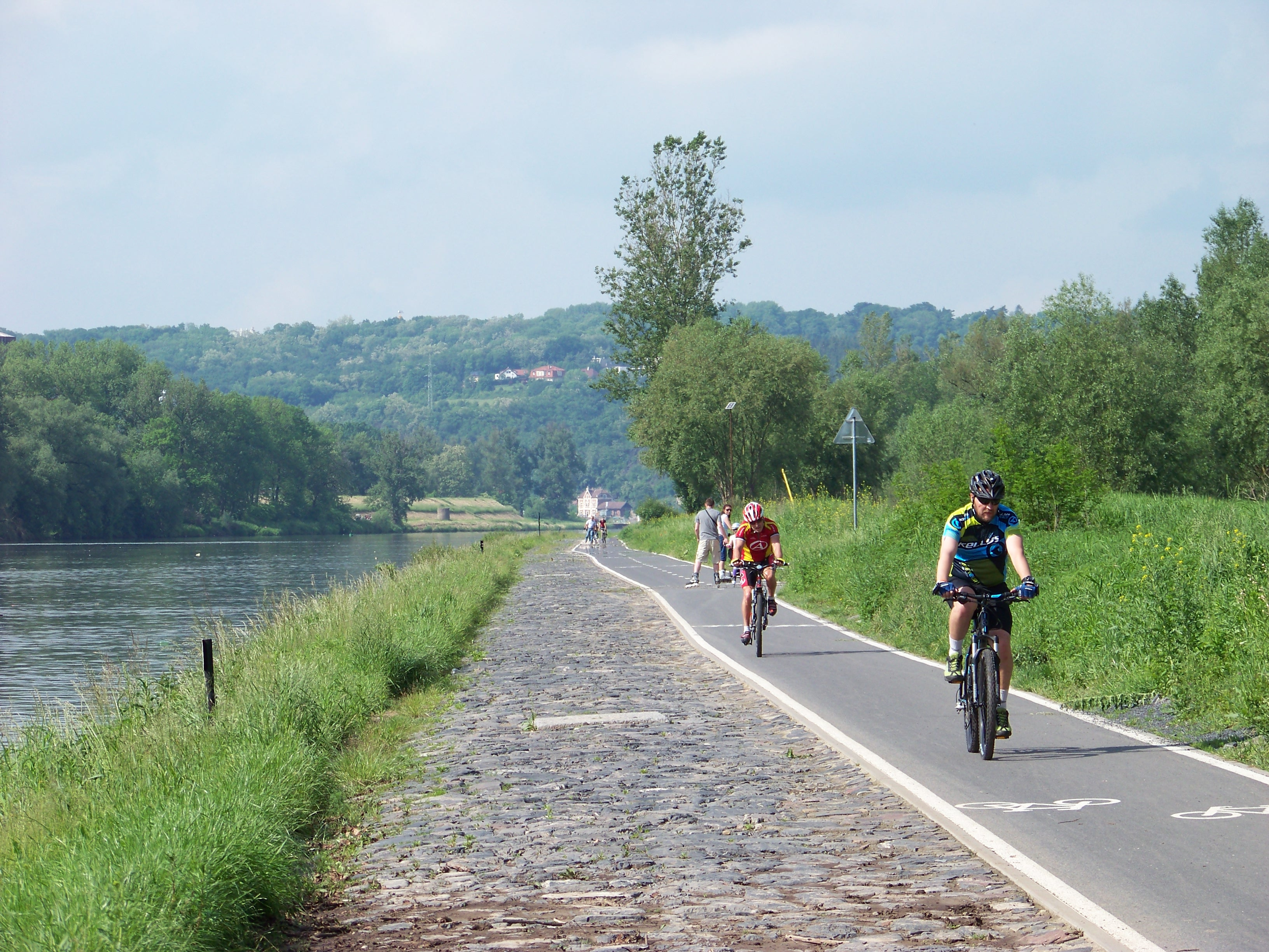 Zdiby-Brnky, Prague-West District, Central Bohemian Region, Czech Republic. A bikeway in the Vltava Valley.